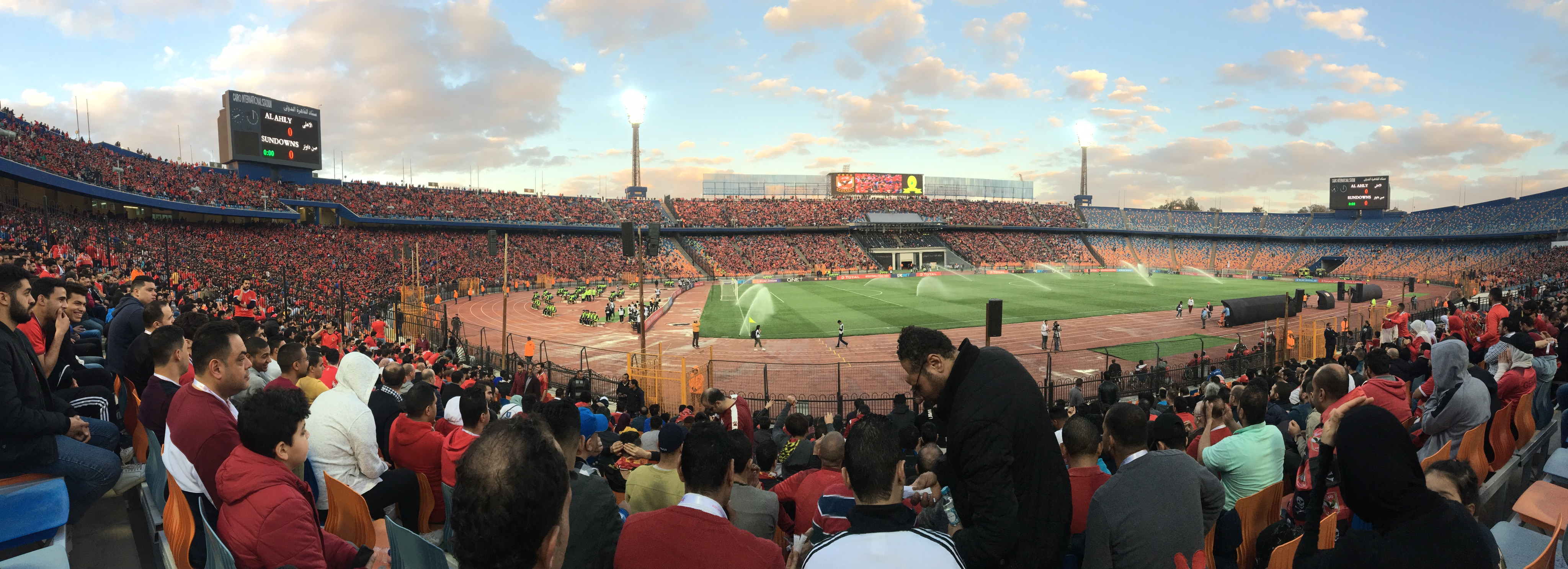 Cairo Stadium before Al Ahly Vs Sundowns match in Caf Champions League